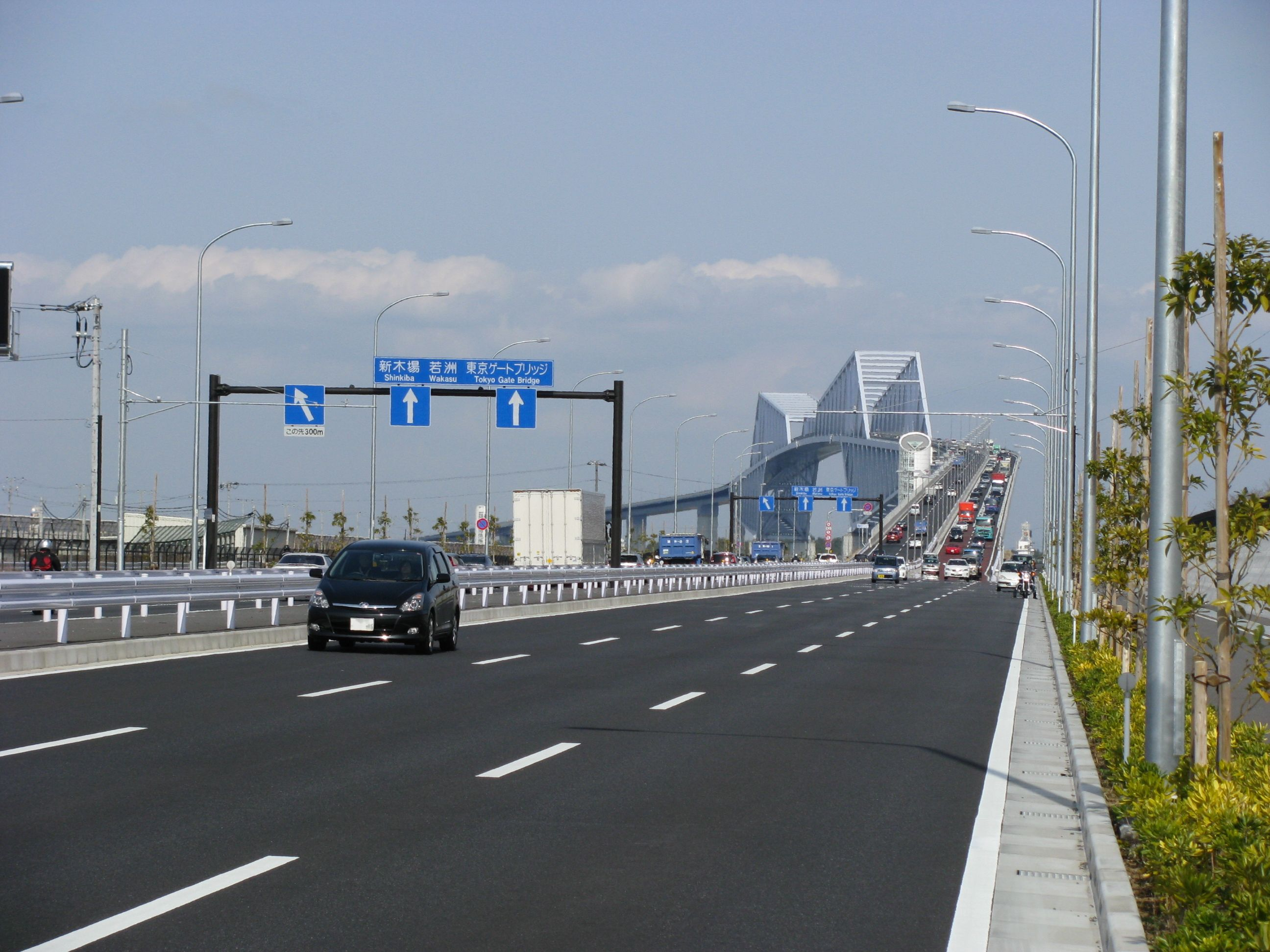 The Tokyo Port Seaside Road. This location is Port of Tokyo, Japan.